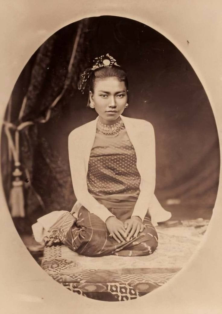 Queen Supayalat's colour edit image